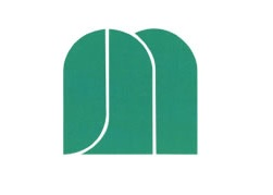 Flag of Kawakami Nara